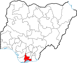 Map showing location of Rivers State in Nigeria